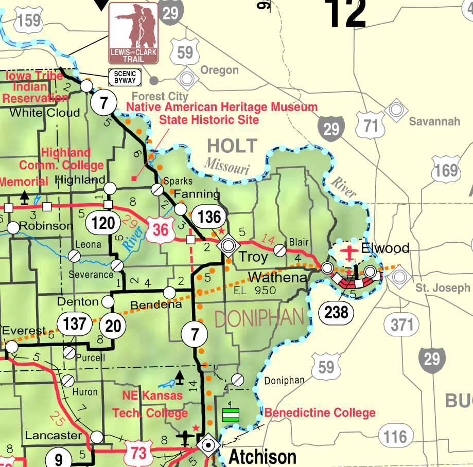 This map of Doniphan County, Kansas, USA, is copied at a resolution of 300 pixels/inch from the original PDF file.